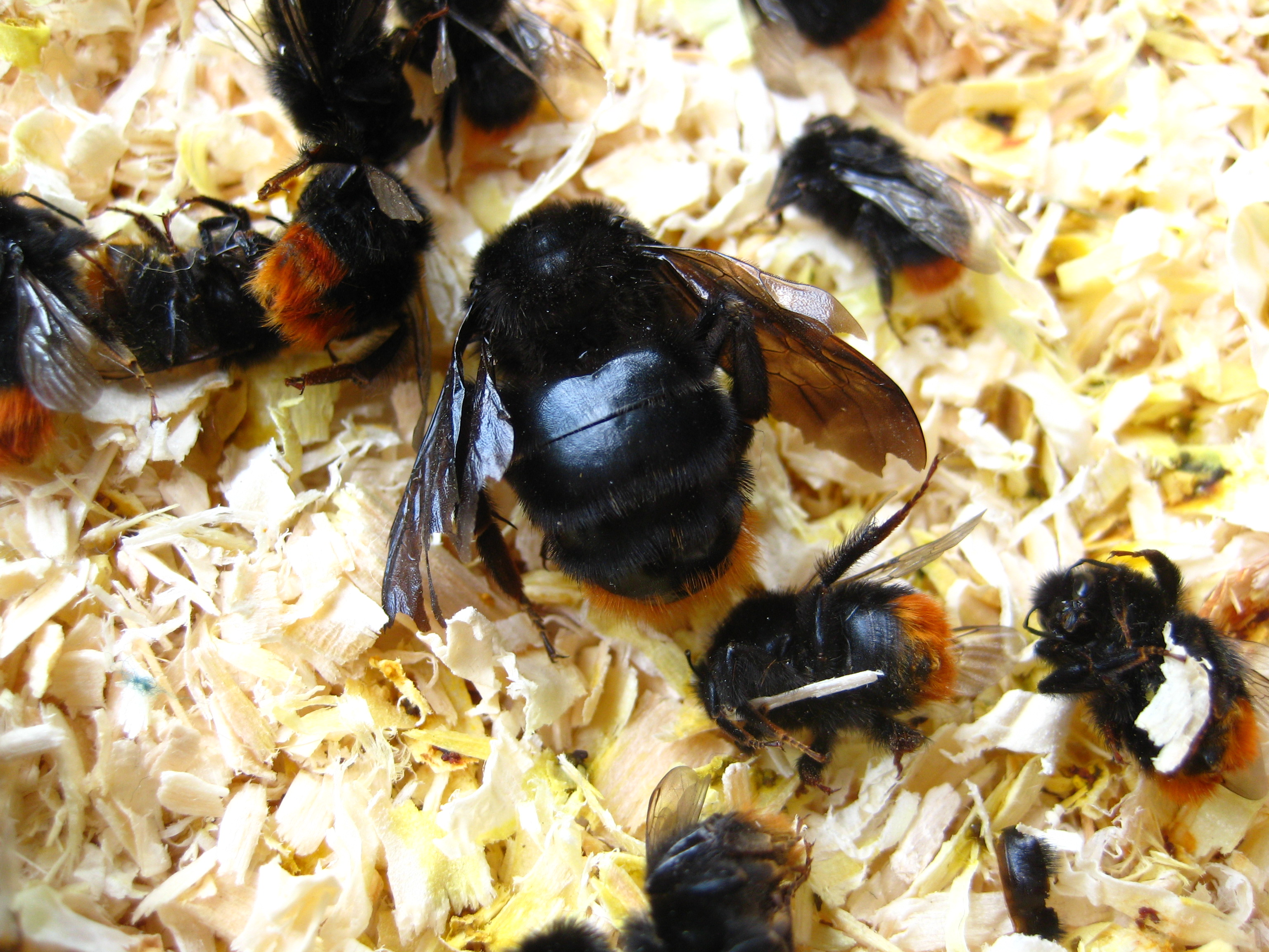 Cuckoo bumblebee Bombus rupestris killed by Red-tailed bumblebee workers of the nest. Some workers were killed in the battle, lying nearby.